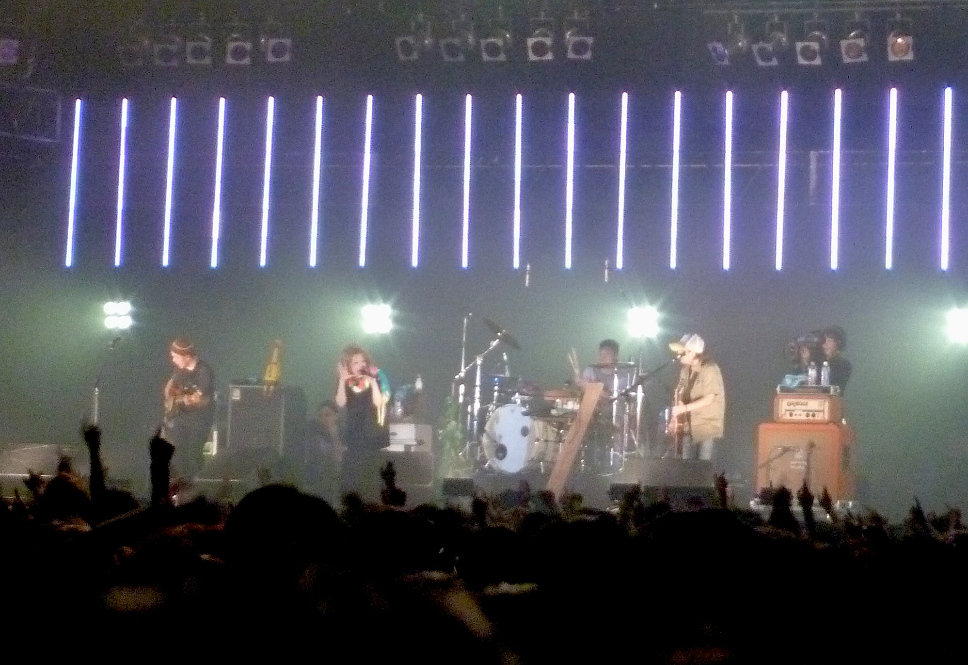 Shakkalabbits live on stage at Count Down Japan festival